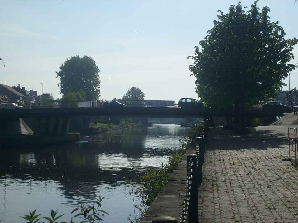 "Saint-Martin Bridge" dunkirk